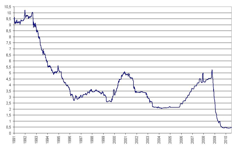 1 month Euribor